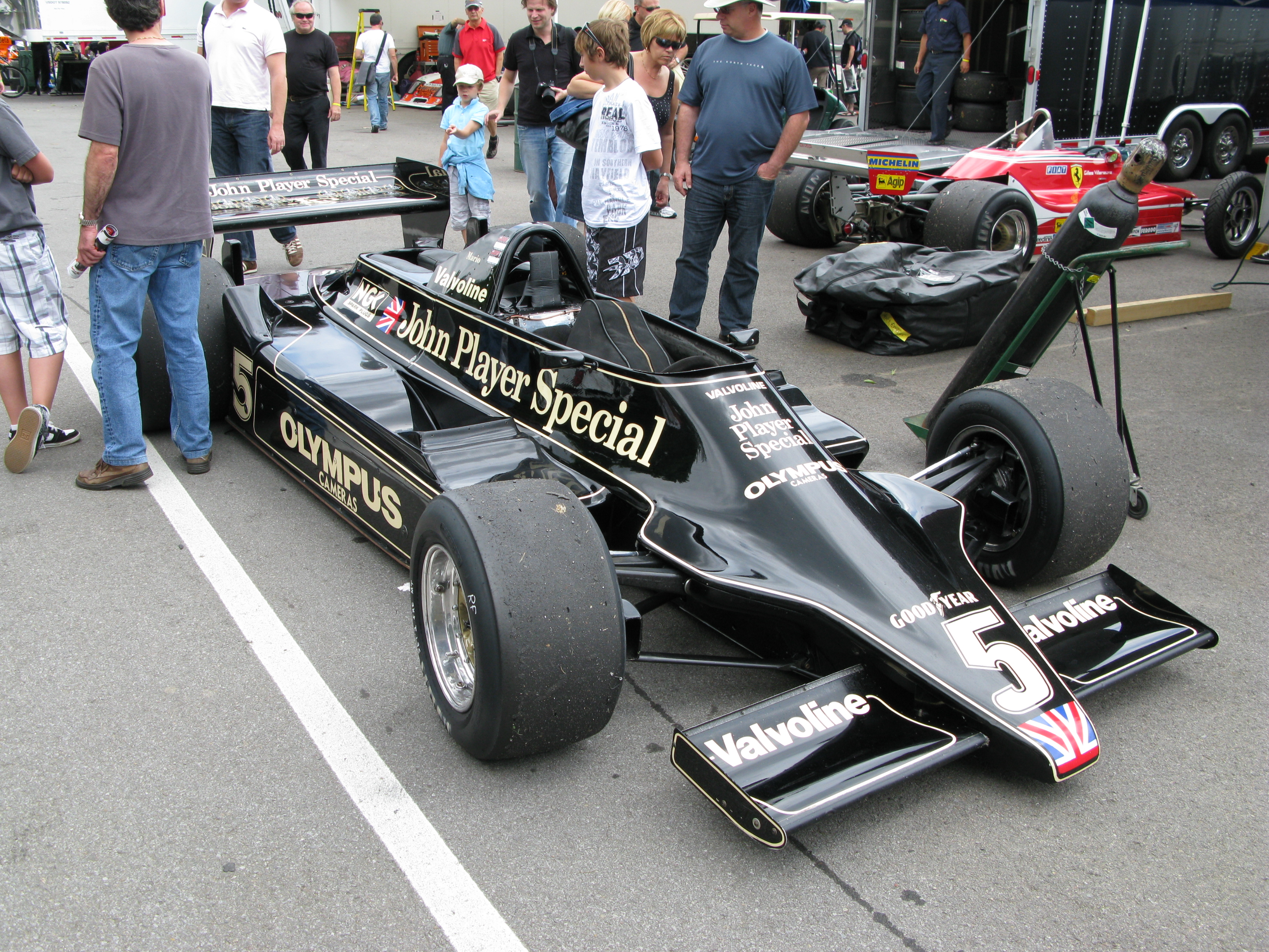 A Lotus 79 Formula One car. Pictured in the paddock of the Sommet des Légends race meeting, Circuit Mont-Tremblant, Quebec, Canada. July 2009.